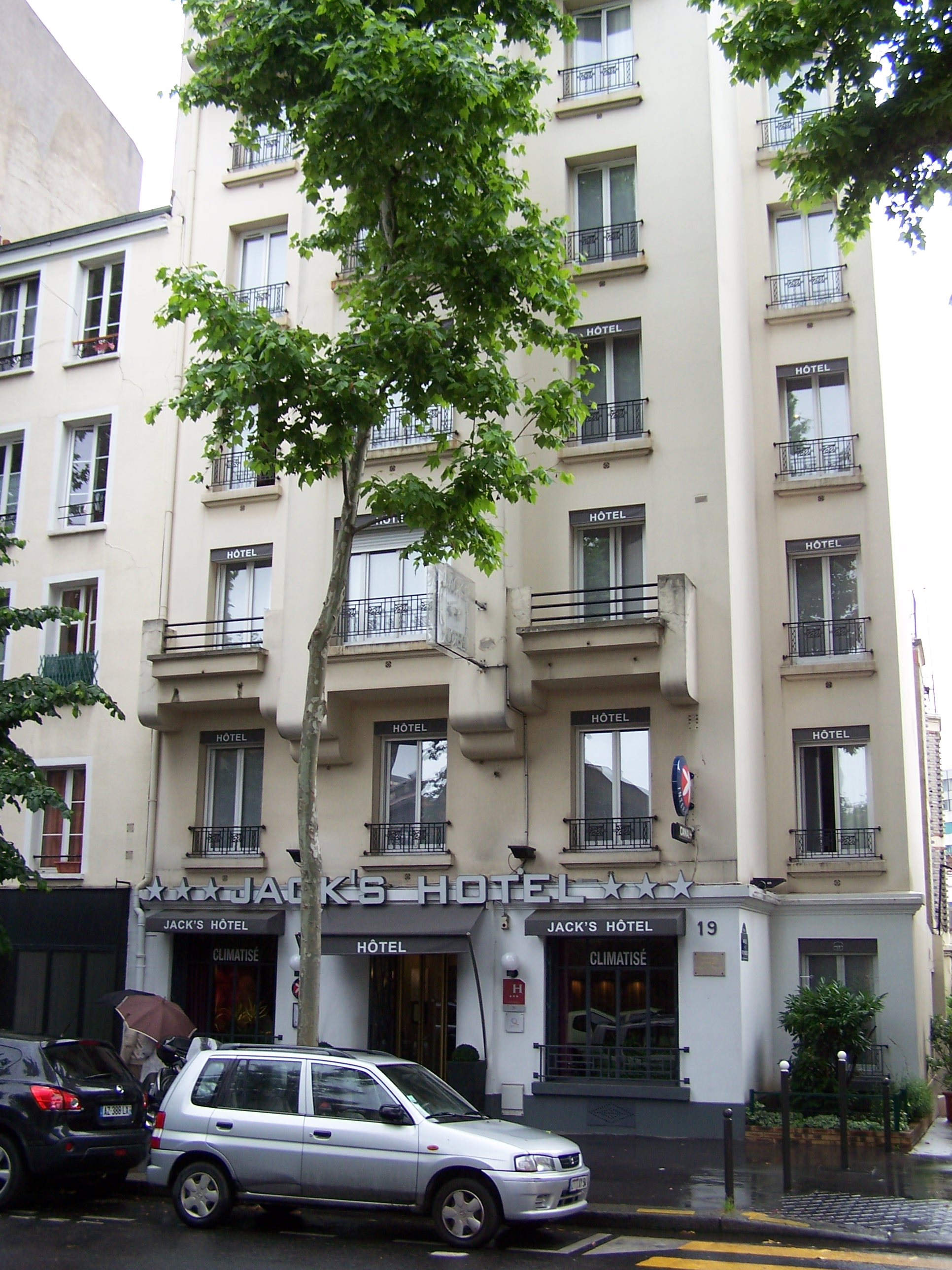 L'hôtel du 19, rue Stéphen-Pichon où meurt l'écrivain Jean Genet (1910-1986)